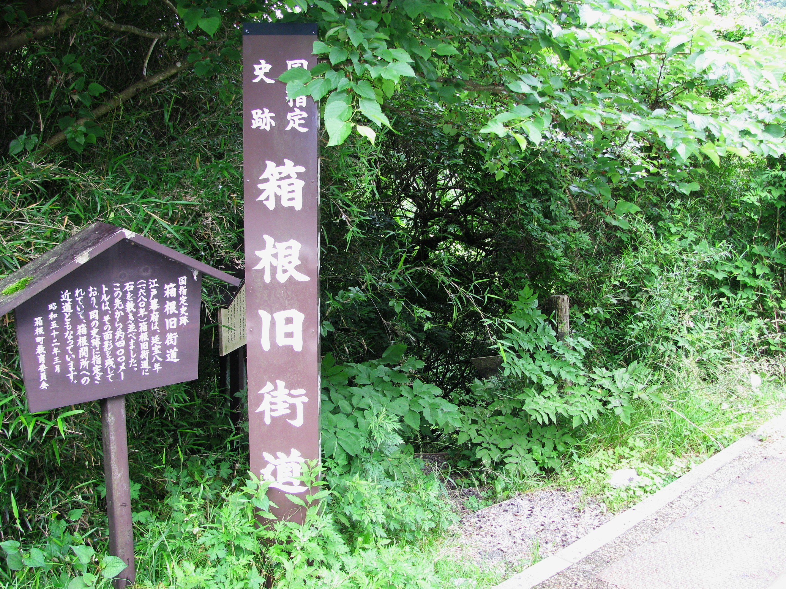 The Old Tōkaidō. This place is Hakone, Ashigarashimo District, Kanagawa, Japan.